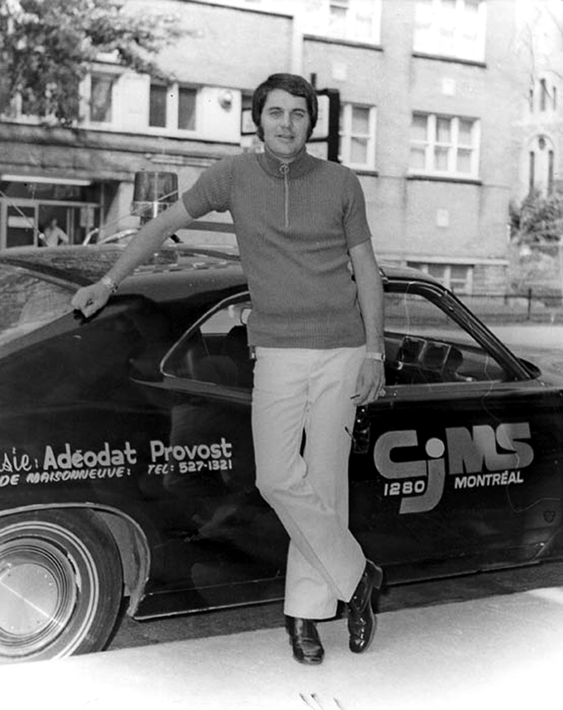 Quebec crime pundit and reporter Claude Poirier in 1968